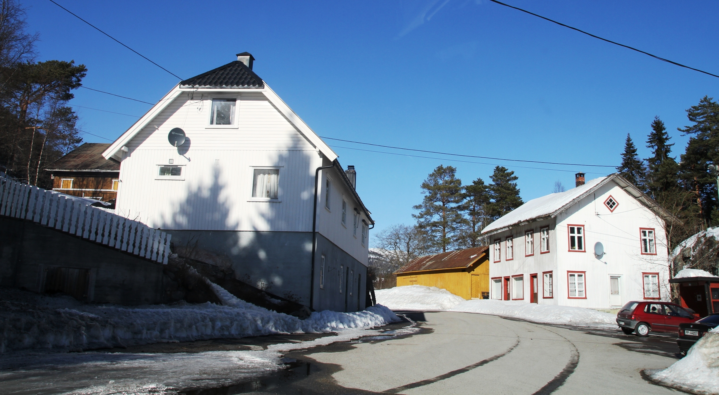 Image from Kviteseid municipality, Telemark county (Norway)